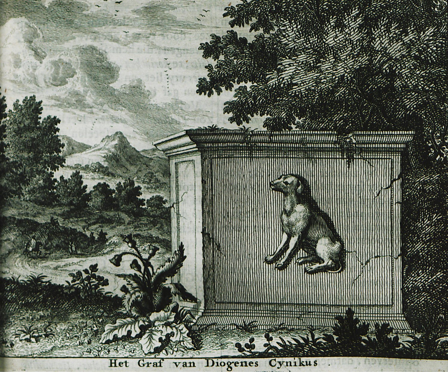 Olfert Dapper, Naukeurige Beschryving der Eilanden in de Archipel der Middelantsche Zee, Cyprus, Rhodes, Kandien, Samos, Scio, Negroponte, Lemnos, Paros, Delos, Patmos, en andere, in groten getale, Amsterdam, Wolfgangh, 1688